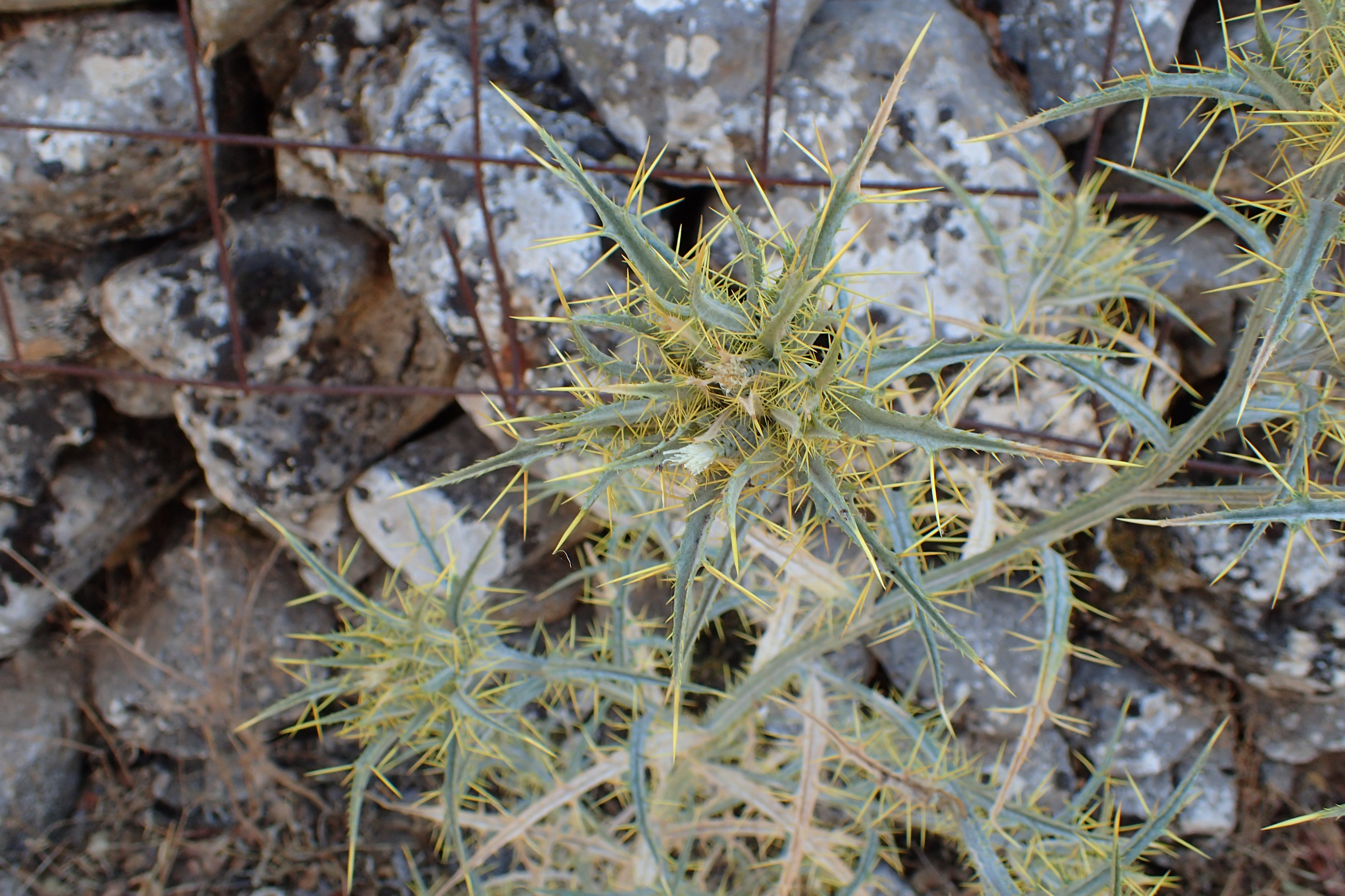 Carthamus leucocaulos in Impros, Crete, Greece